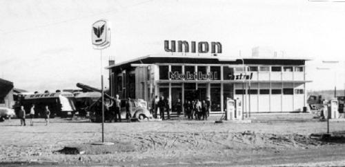 Union expanded its petrol station network during 1950s on the Finnish countryside. A new Union petrol station was also opened in Hämeenlinna Keinusaari at the end of October year 1959. The picture is from the opening day